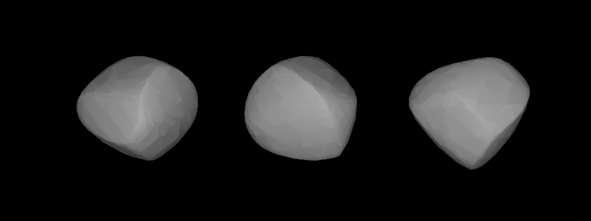 A three-dimensional model of 160 Una that was computed using light curve inversion techniques.